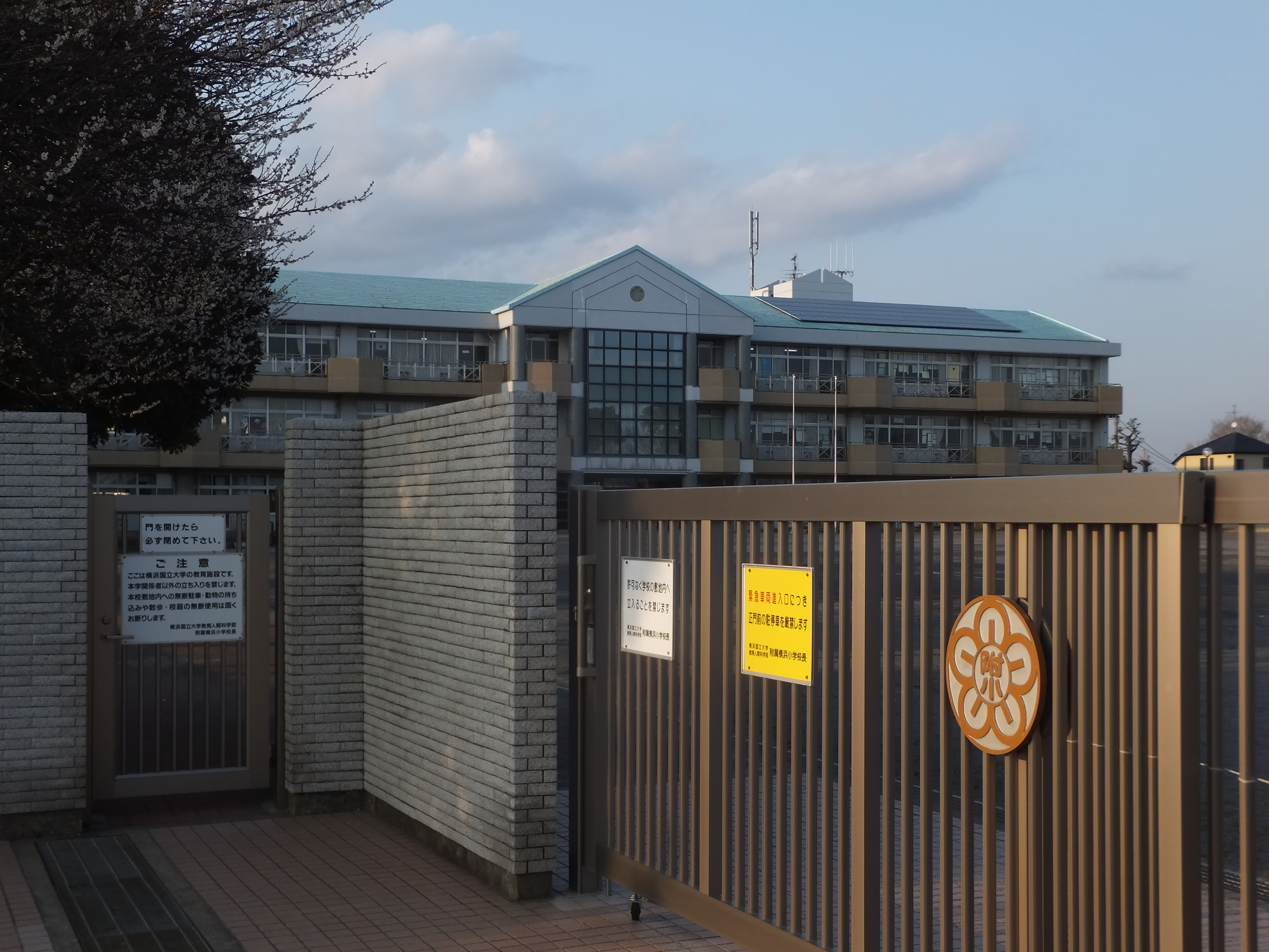 Yokohama Elementary School affiliated with the Faculty of Education and Human Sciencesat, Yokohama National University